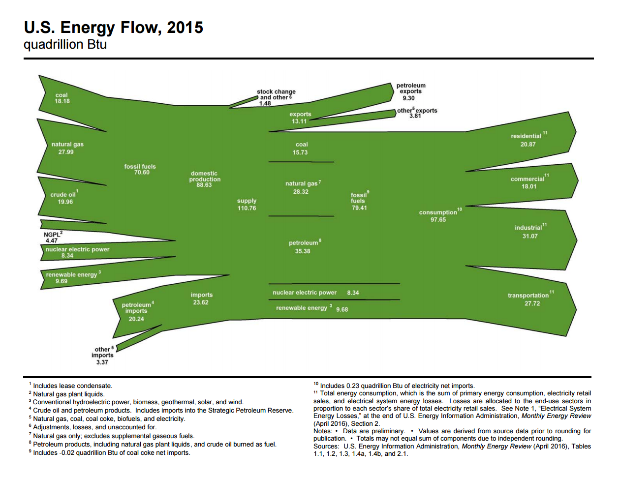 EIA US Energy Flow 2015